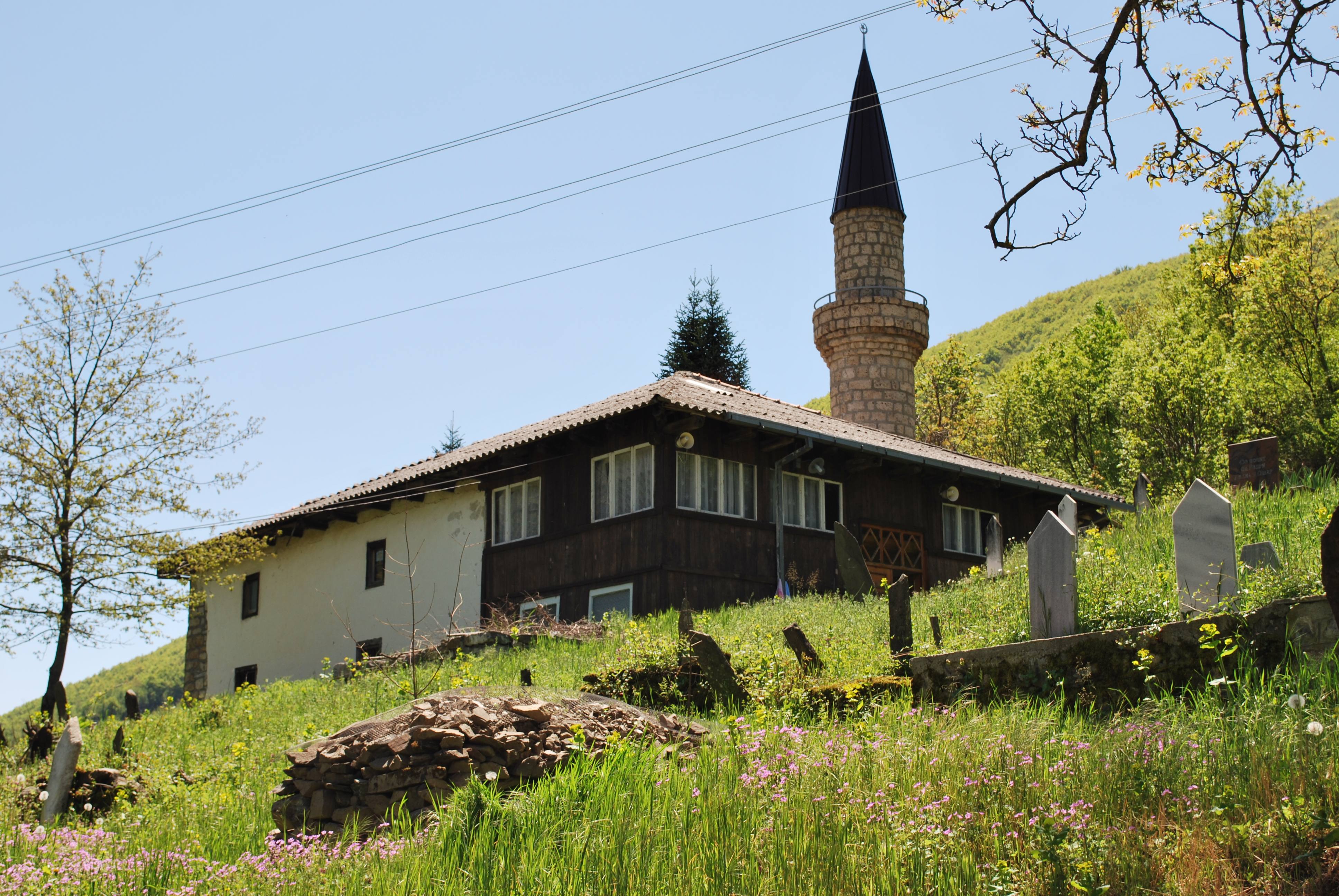 Rostuša, Macedonia